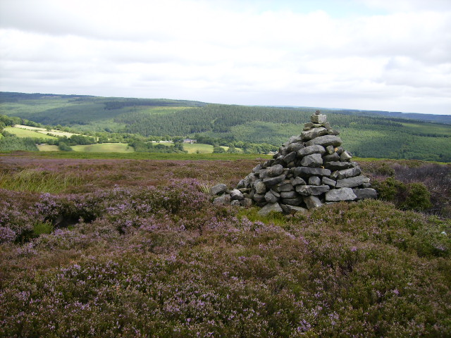 Pile of Stones on Spaunton Moor. This feature is marked on the OS Explorer Map as Pile of Stones, near to Abraham's Cairn. It is possible this is the same thing as we could not find Abraham's Cairn.